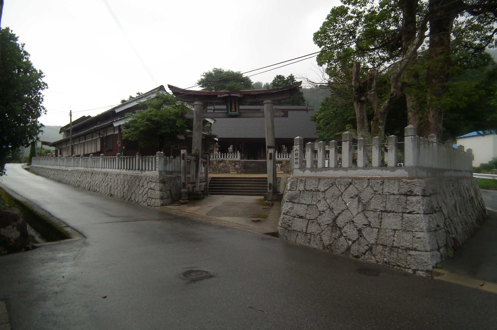 Yahashira Shrine in Kurikara, Sasayama city